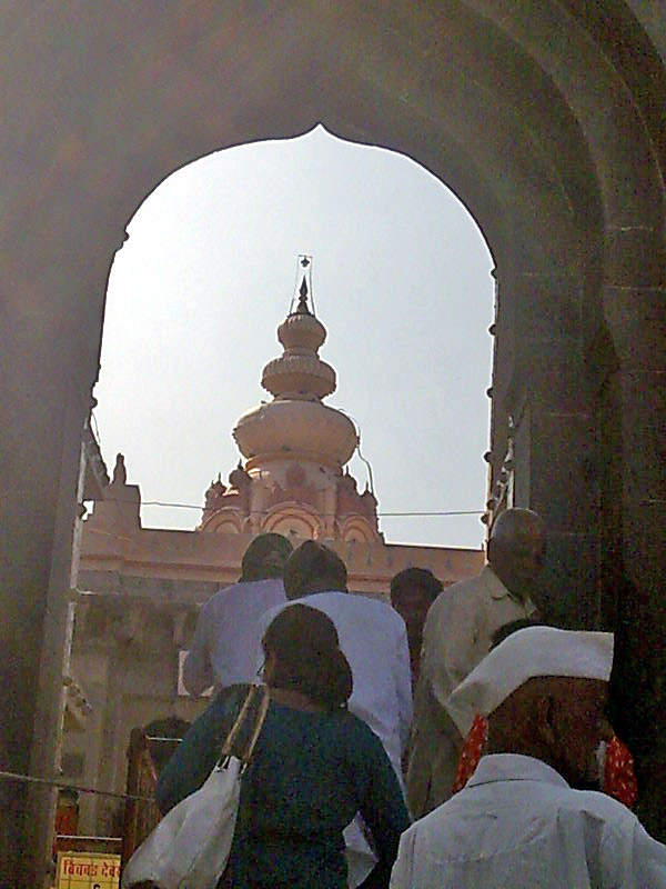 Morgaon temple